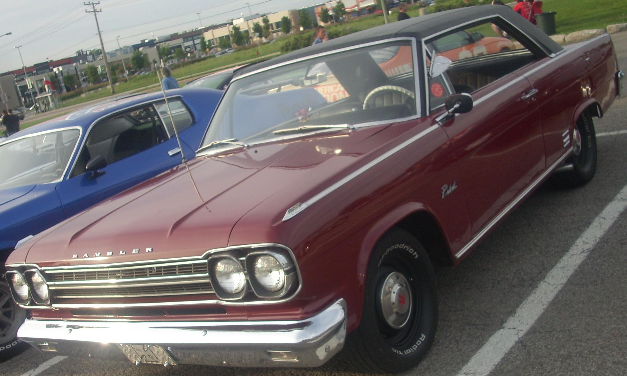 1966 Rambler Rebel photographed in Laval, Quebec, Canada at Les chauds vendredis 2010.